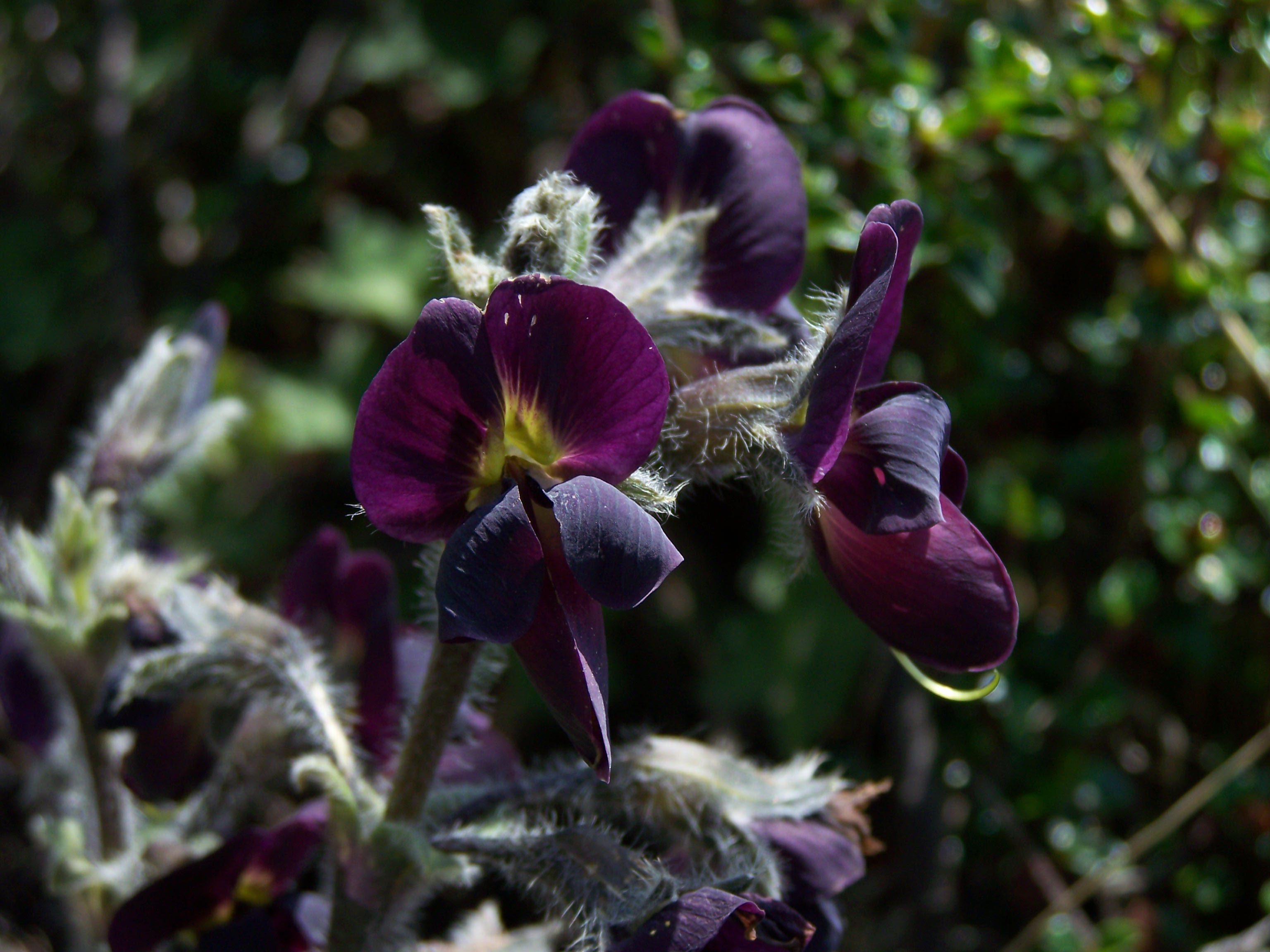 See User:Woudloper/Himalayan flora. Thermopsis barbata, 3000 m, May, Poon Hill, Annapurna region, Nepal